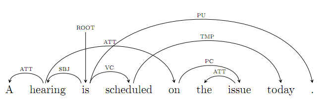 An example of a dependency graph drawn with the TikZ-dependency package.